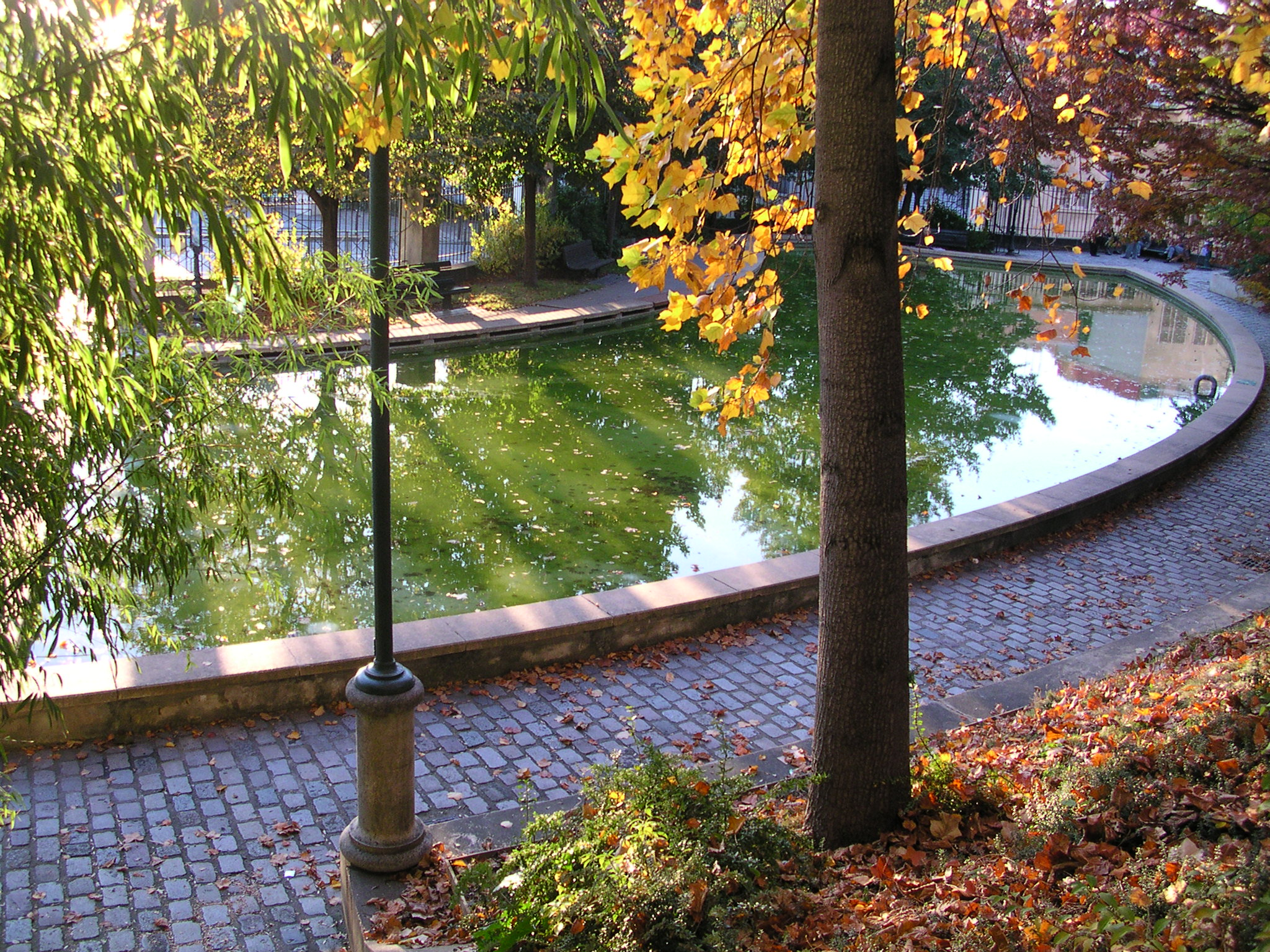 The parc de Belleville fountain in Paris, XXe arrondissement (France).